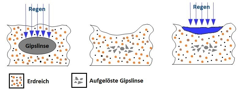 Sketch: Formation and development of a mardelle according to the erdfall theory